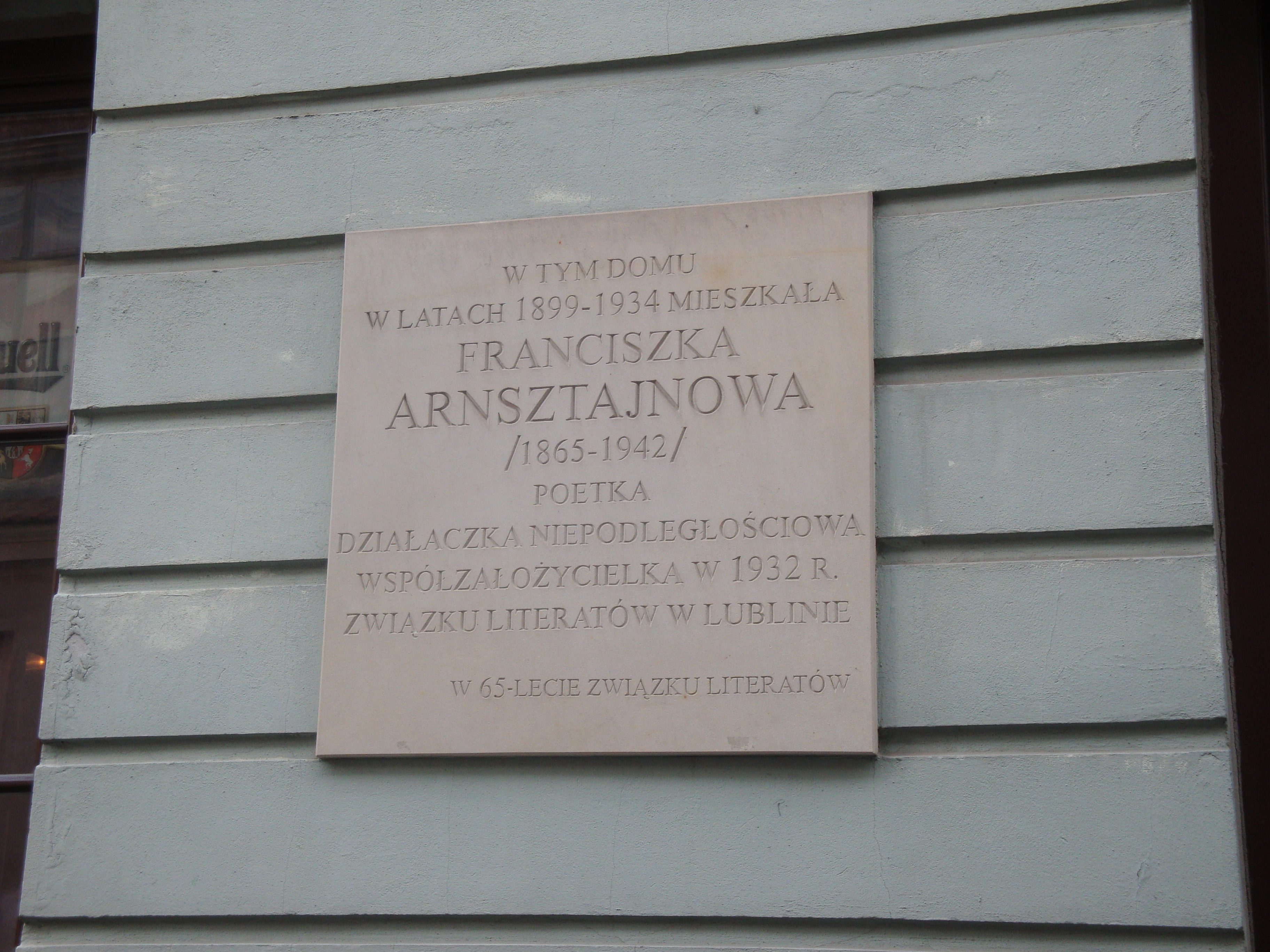 Plaque commemorating Franciszka Arnsztajnowa, Polish poet. She was living in this house in Lublin.